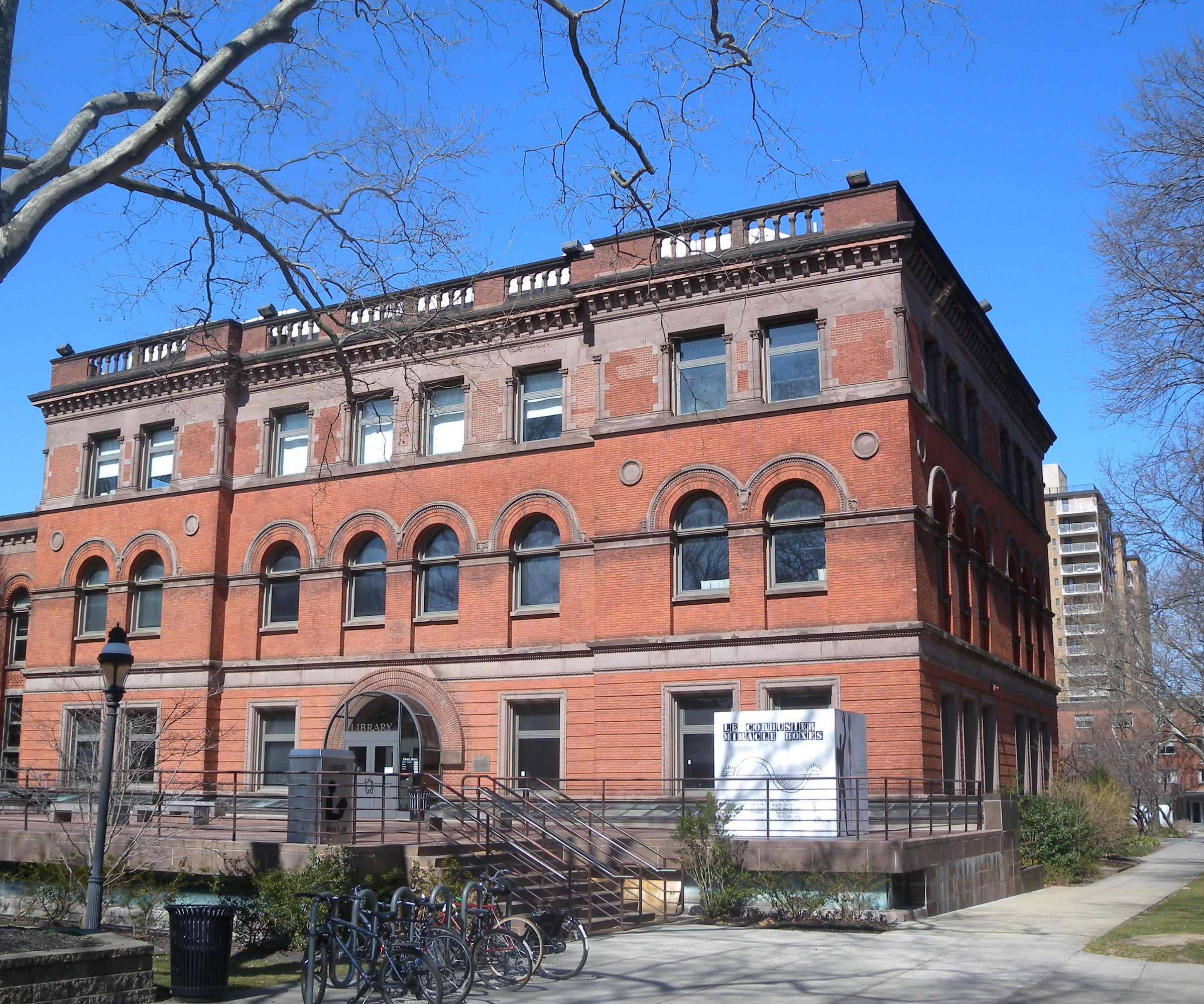 Looking northwest at library on a sunny late morning.